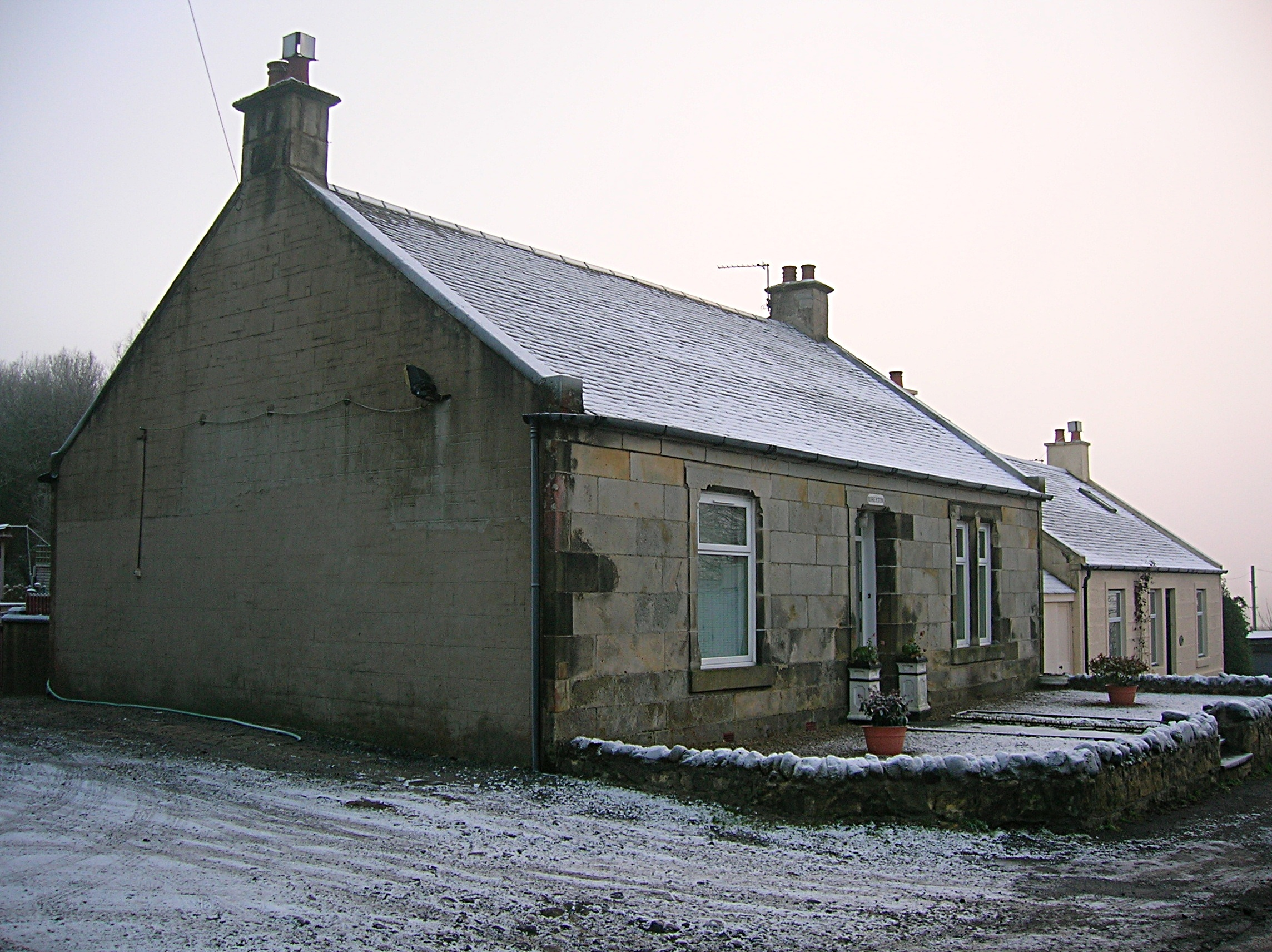 Old cottages at Benslie, North Ayrshire, Scotland. 'Roberton' cottage is in the background